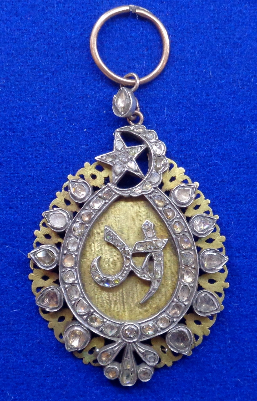 Order of Glory (Nicham Iftikhar), badge, 1835-1843. Tunisia. The exhibition of the Tallinn Museum of Orders of Knighthood, Estonia.